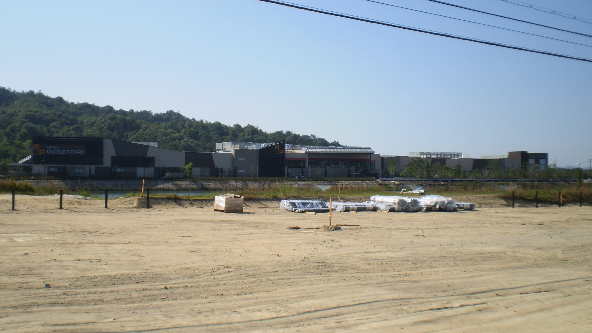 Mitsui outlet park Shiga-Ryuo. I took this image at Kusushi Ryuo Town Shiga Pref., Japan.